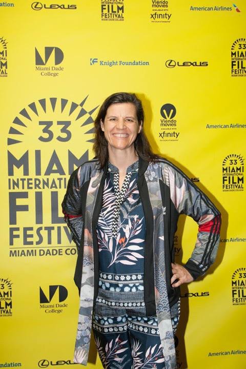 Director Kirsten Johnson at the Miami Film Festival presentation of CAMERAPERSON Photo: Carlos Llano